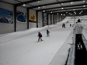 Inside Snow Planet, Auckland, New Zealand.